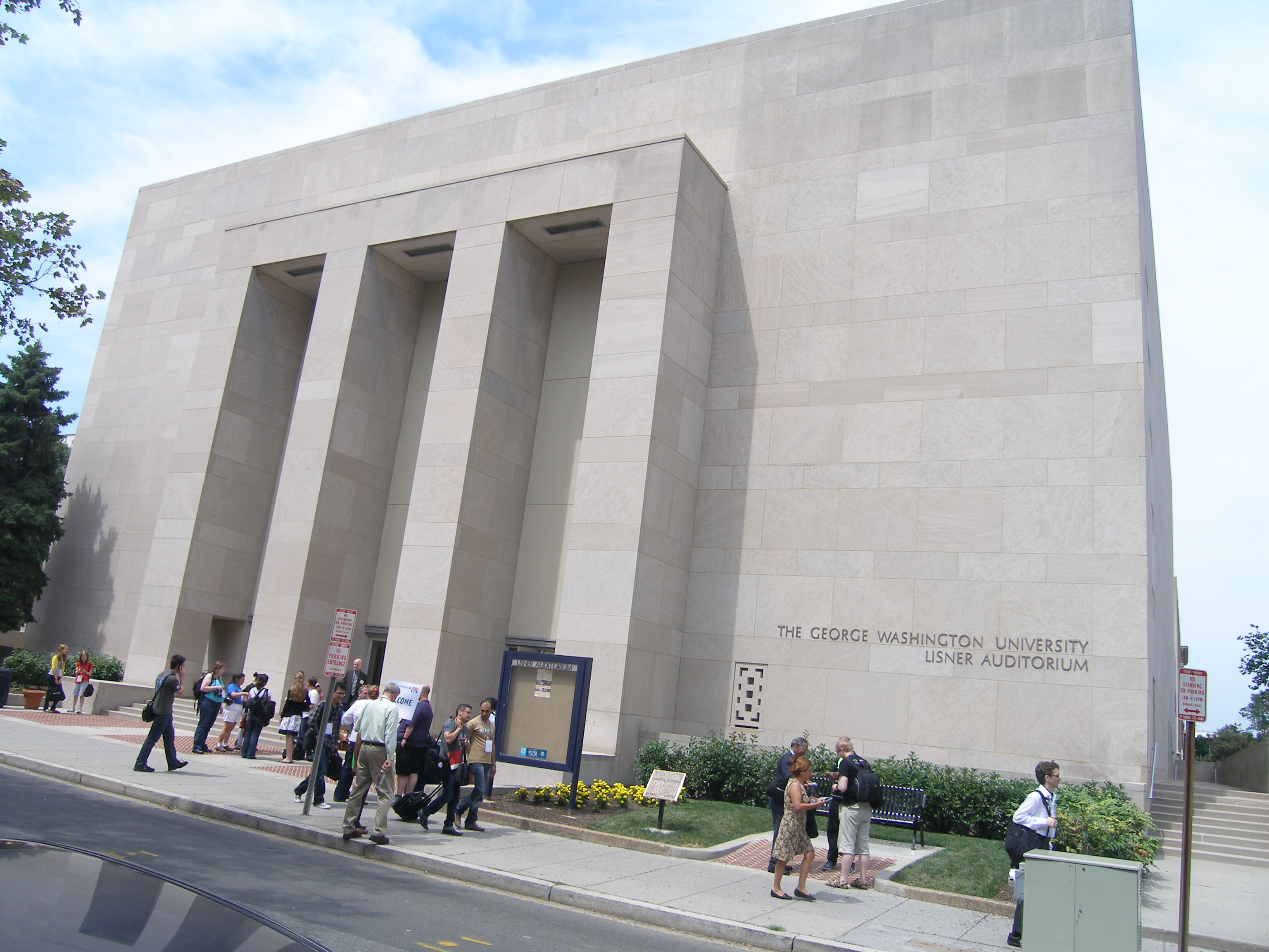 Profile view taken by me.Rajasekhar1961 (talk) 08:55, 13 August 2012 (UTC)